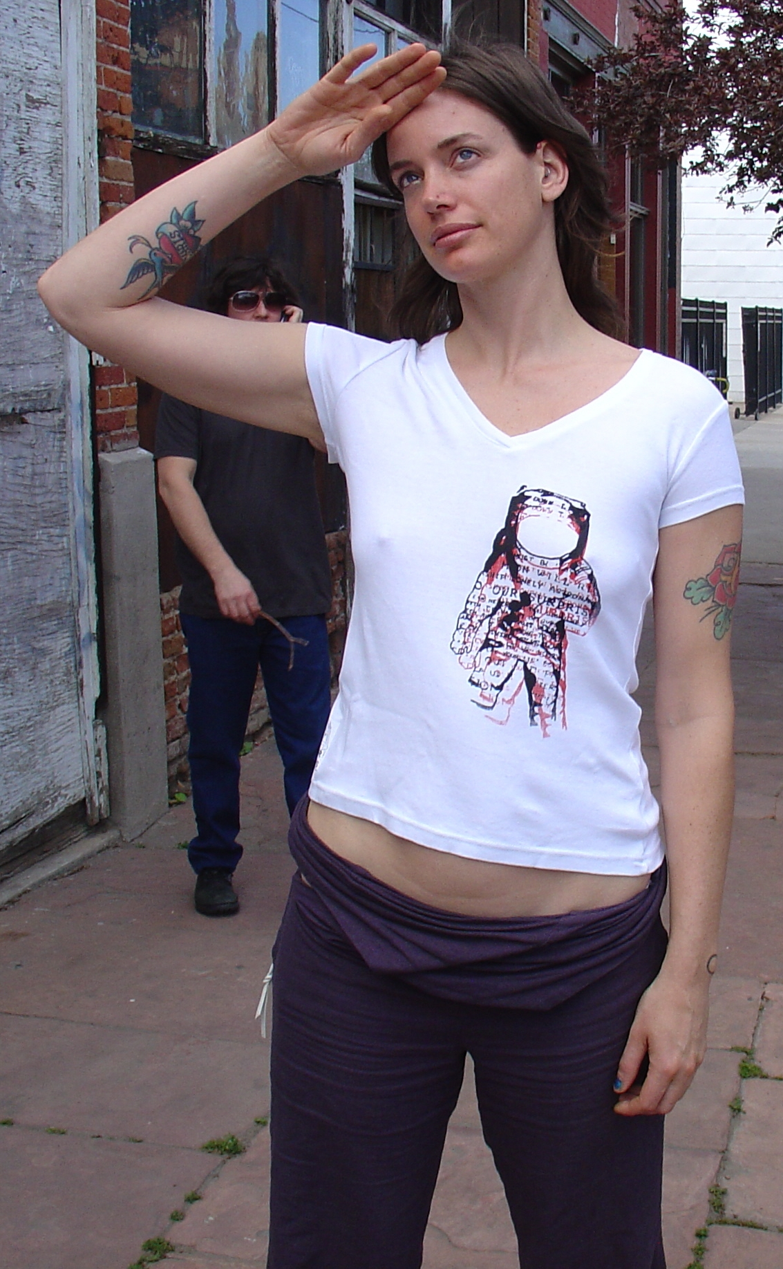 This is Sybil Buck in Denver, CO on April 29, 2007. She was there to play with Joseph Arthur and the Lonely Astronauts at the Larimer Lounge. She is wearing a T-Shirt I designed for the band.